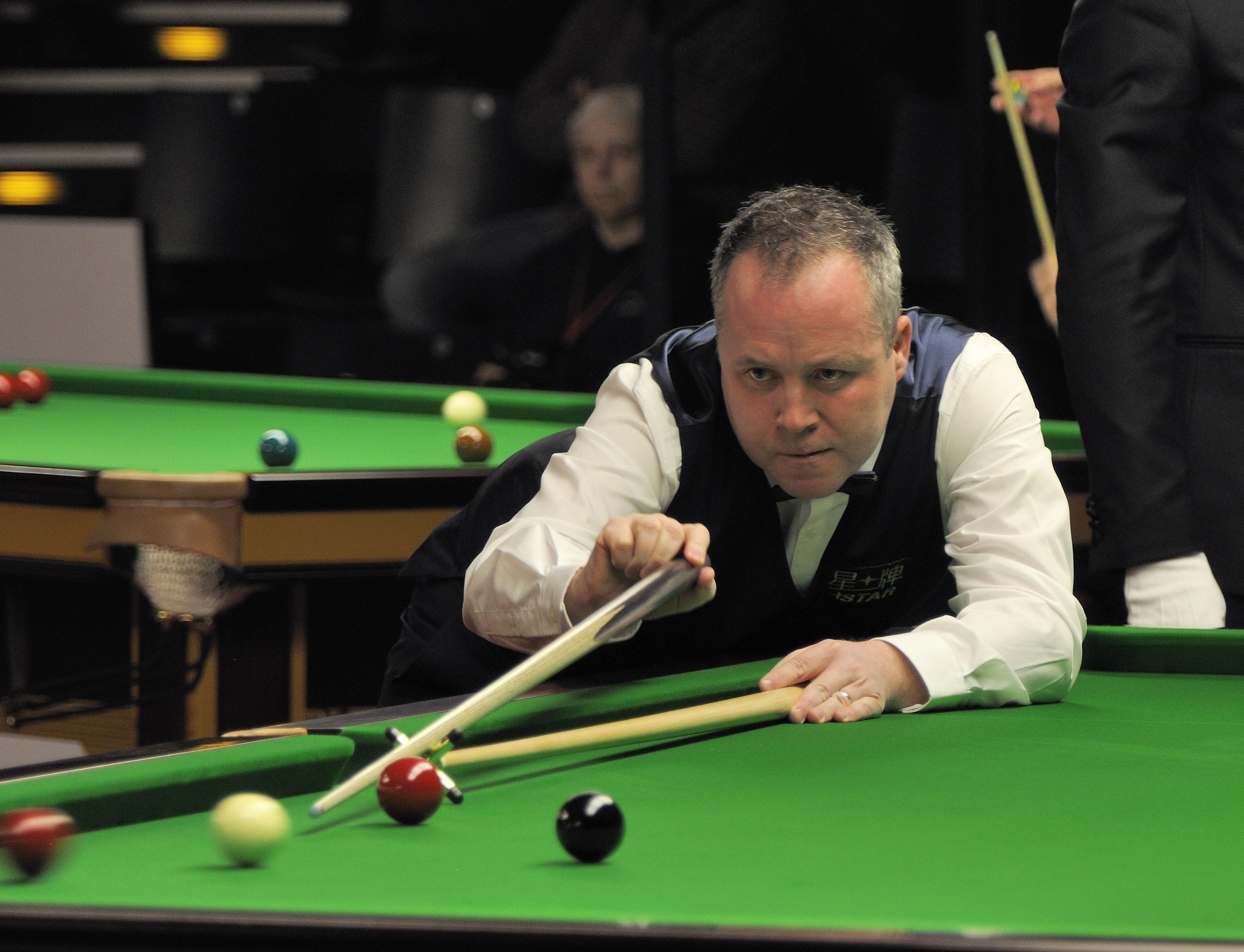 Picture taken in Berlin during the Snooker German Masters in 2014. John Higgins.